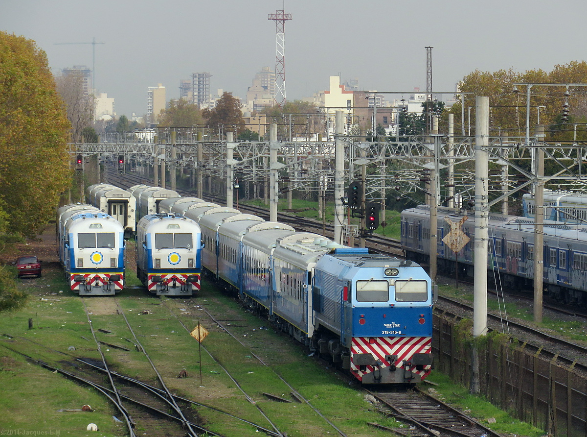 Different General Roca Railway rolling stock in Buenos Aires (from left to right): two CNR CKD8 locomotives, MACOSA locomotive pulling long distance carriages and Roca Line Electric Multiple Unit. The diesel locomotives are stored outside a workshop while the EMU is running on the Roca Line.